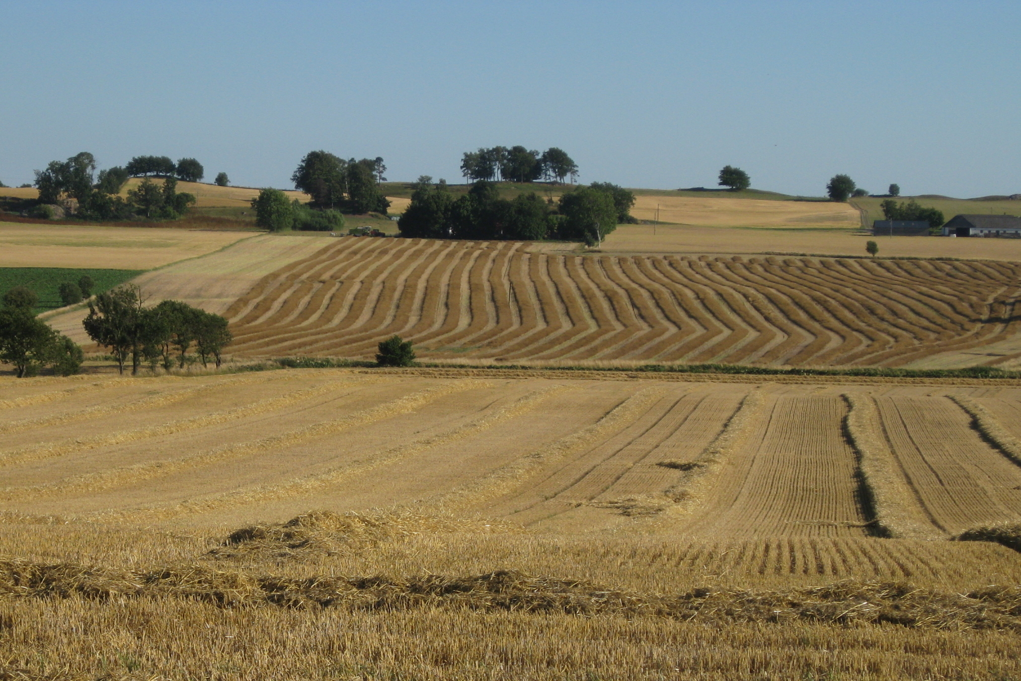 Landscape in Skåne during harvest